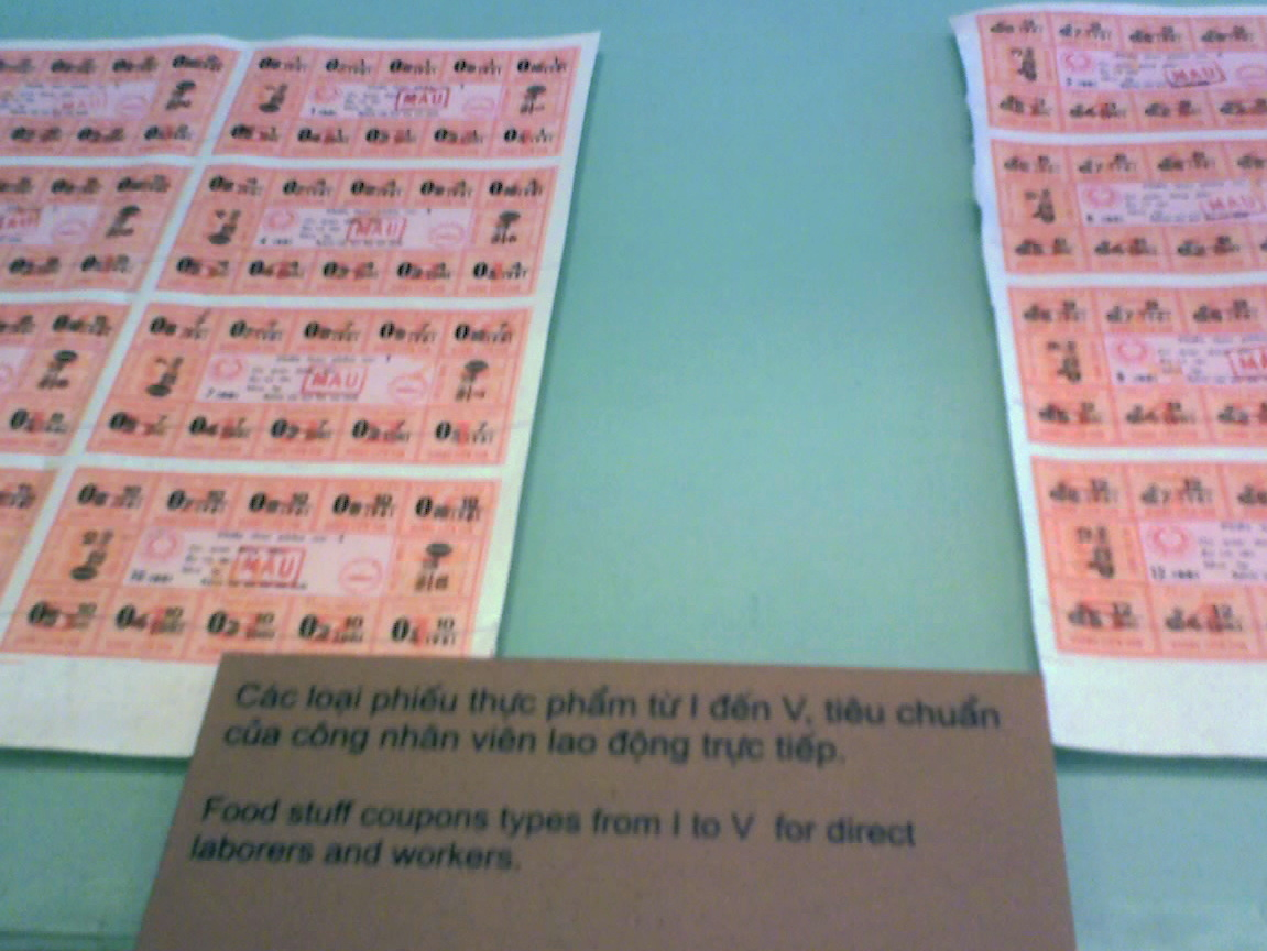 Coupons used for buyings food stuff during the pre-Doi Moi period in Vietnam